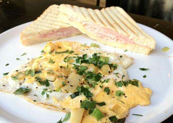 Ham and cheese sandwich garnished with scrambled eggs.